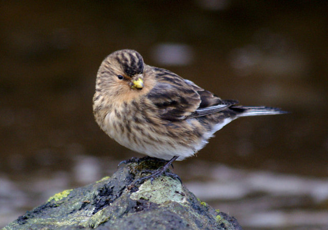 Twite (Carduelis flavirostris) A declining resident of northern Britain, closely related to the familiar Linnet, and known as 'Lintie' in Shetland.